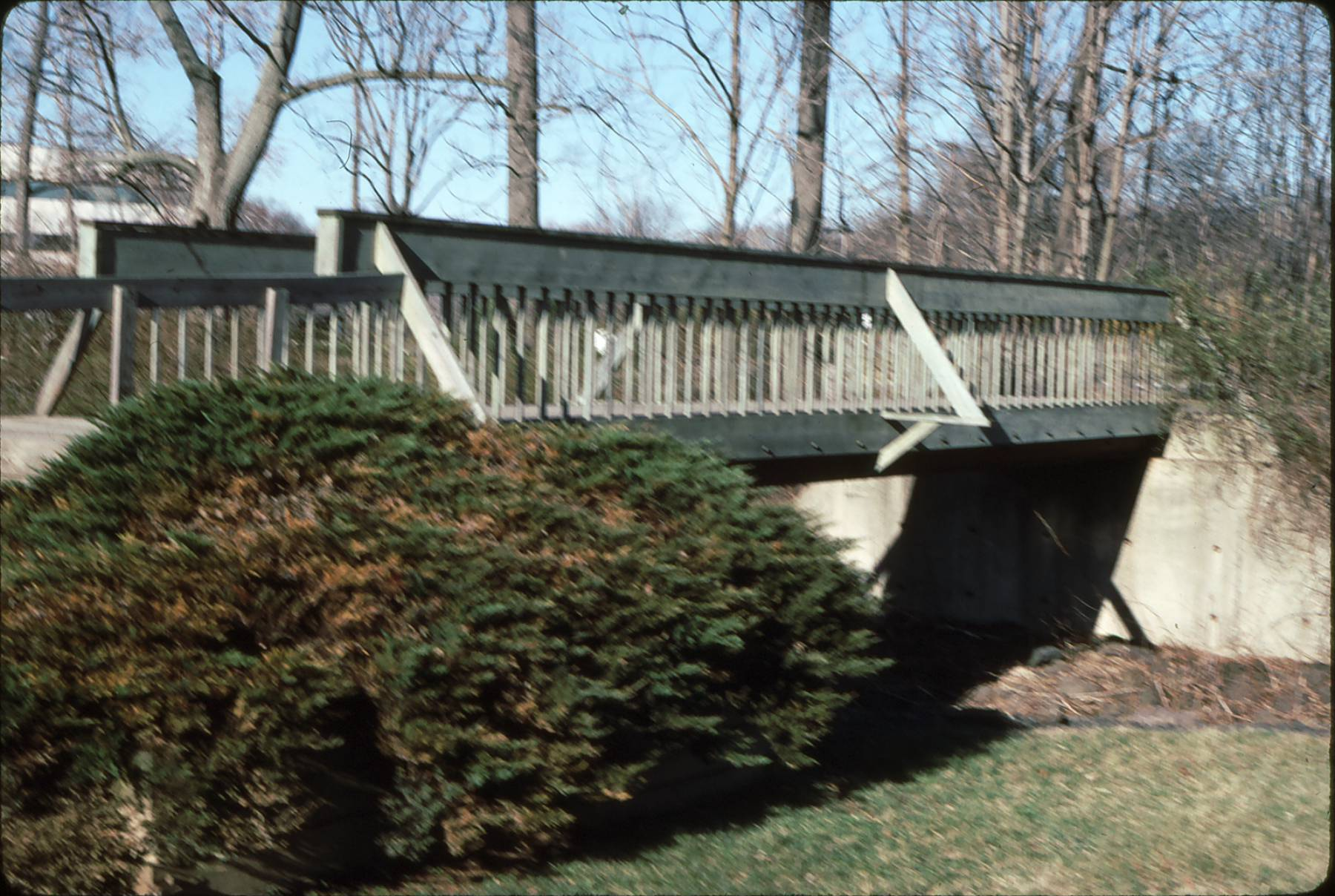 The 1968 high bridge still stands Summary The 1968 high bridge still stands